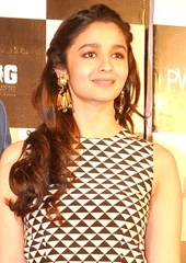 Alia Bhatt at 2 STATES trailer launch